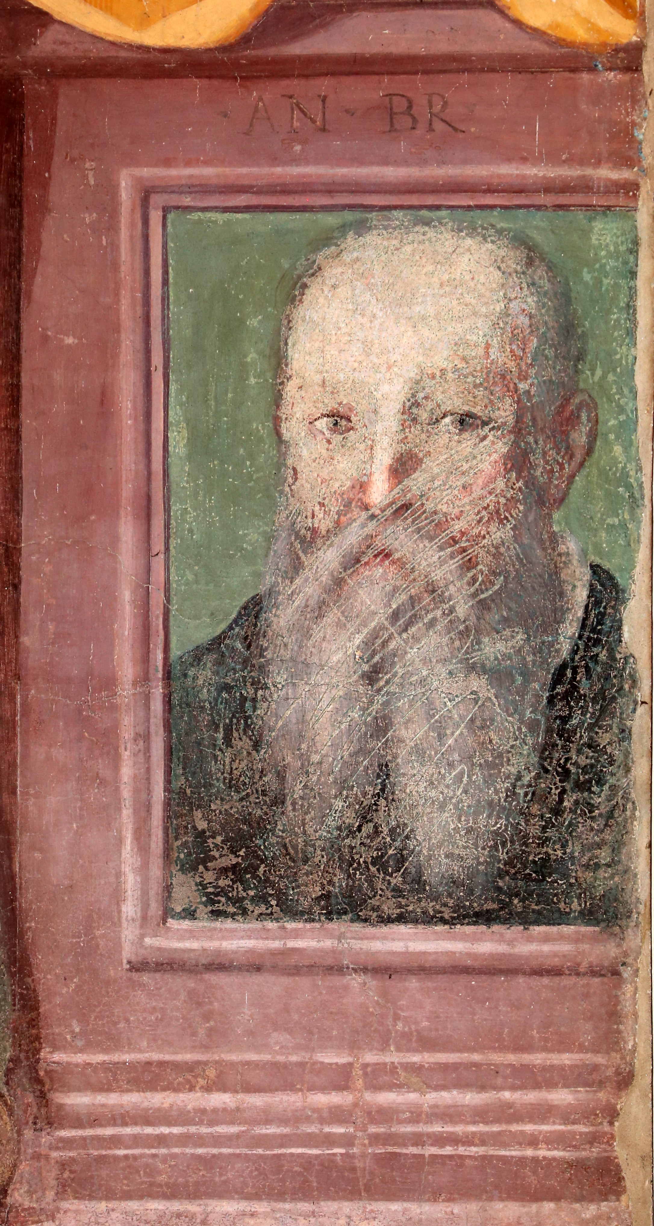 Cappella di San Luca (Florence)